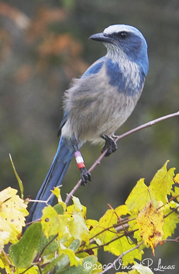 Florida Scrub-Jay (Aphelocoma coerulescens -- Family: Corvidae). Oscar Scherer State Park, Osprey, Sarasota Co., Florida 11/16/2006